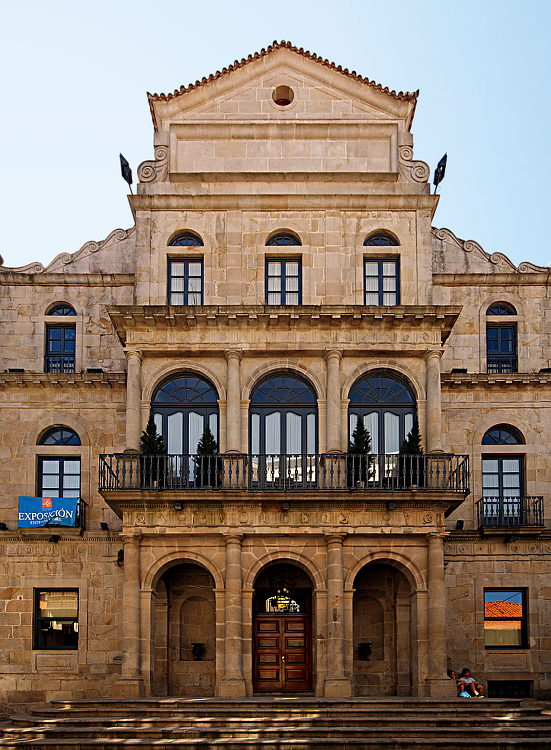 Pontevedra, Teatro Principal